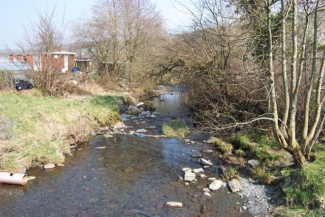 Afon Machno. This is an Easterly view of the Afon Machno taken near the Tyn Ddol Roadbridge at grid reference SH 79052 50735.